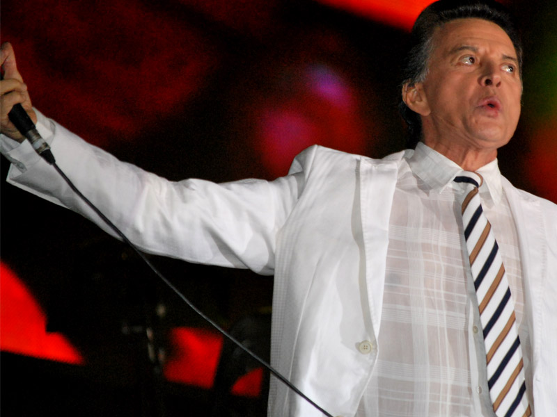 Un recital lleno de clásicos con homenaje a Elvis incluído. Palito demostró estar en muy buena forma y que no se olvidó cómo hacer suspirar a sus fans